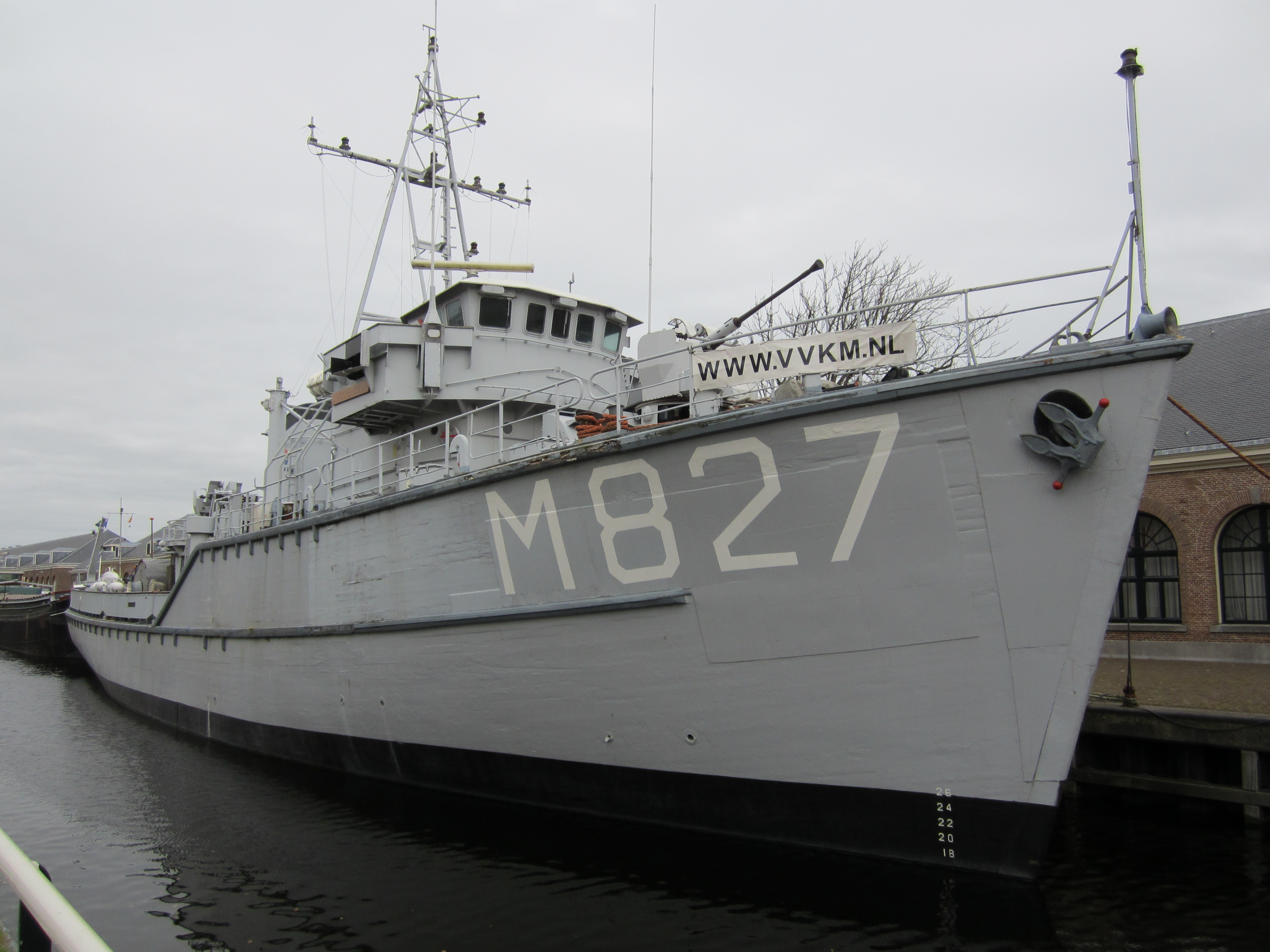 The former Royal Netherlands Navy minesweeper Hoogeveen moored at the back of the Dutch Navy Museum in Den Helder during October 2011